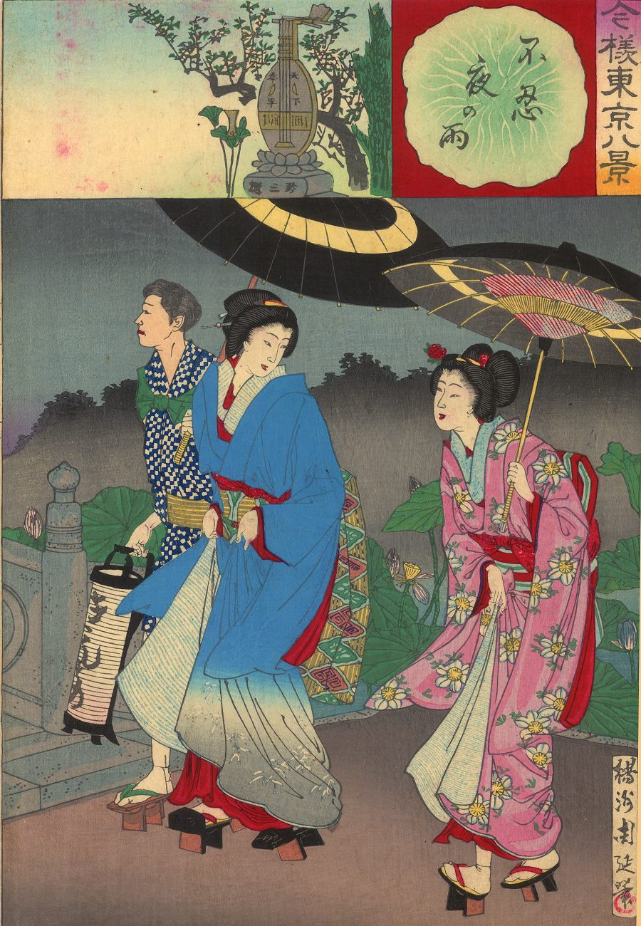 Two women walking with escort